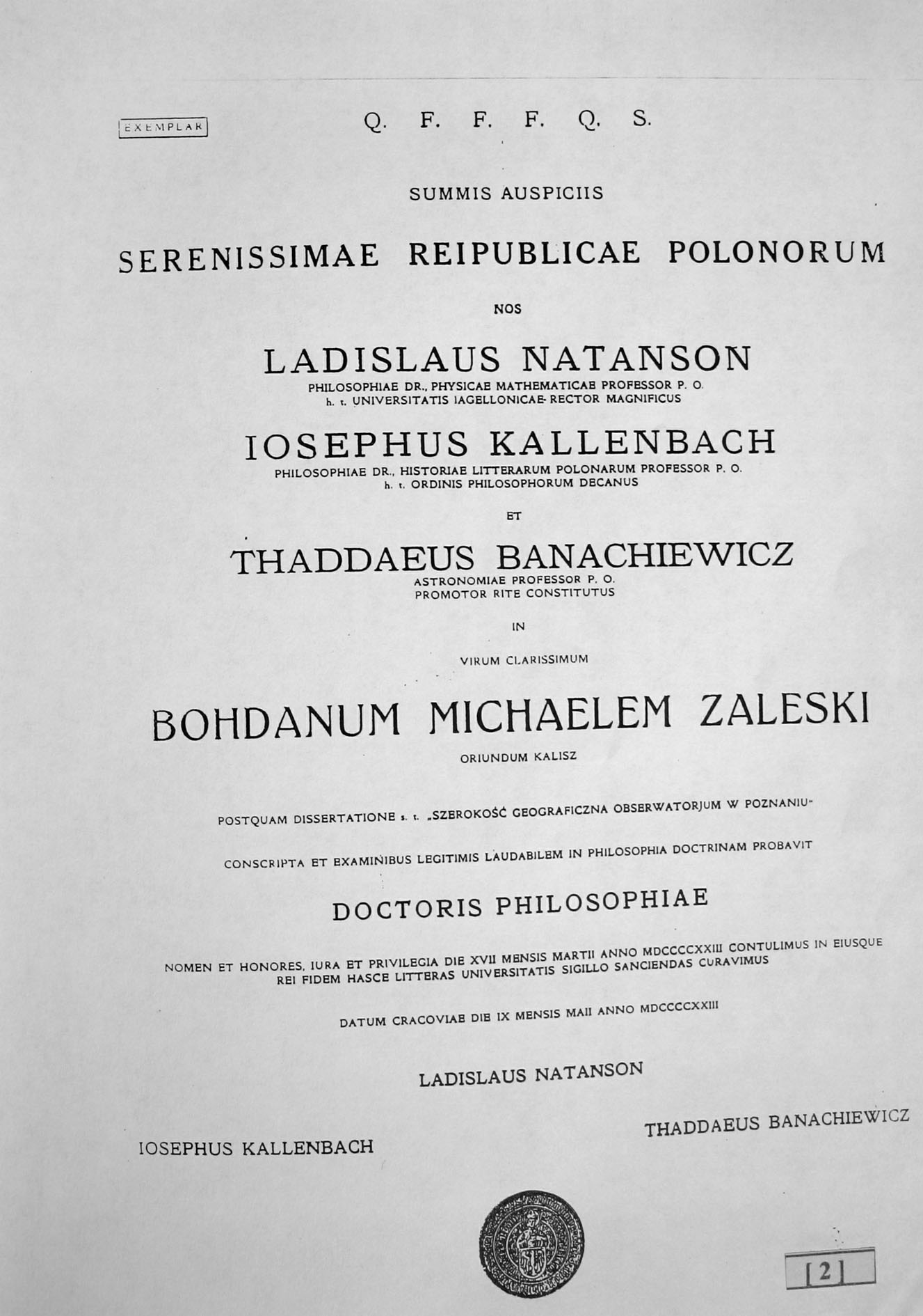 A Ph.D. diploma for Bohdan Zalewski.